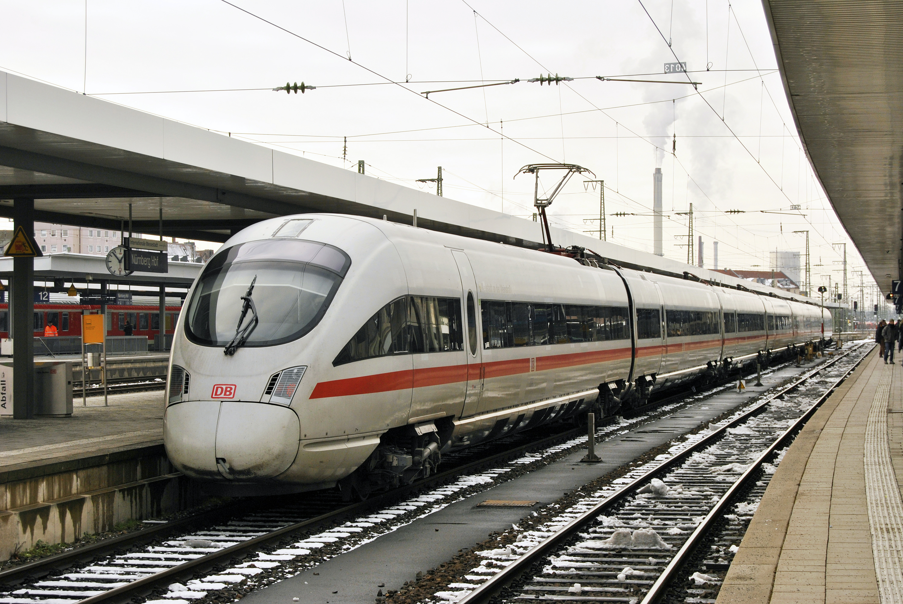 Inter City Express